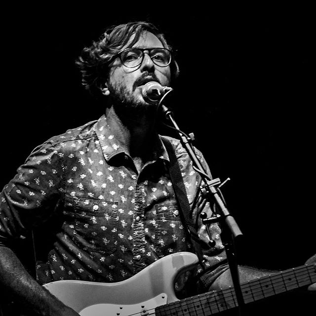 Martin Courtney performing with Real Estate at Arts Centre Melbourne's Hamer Hall in 2013